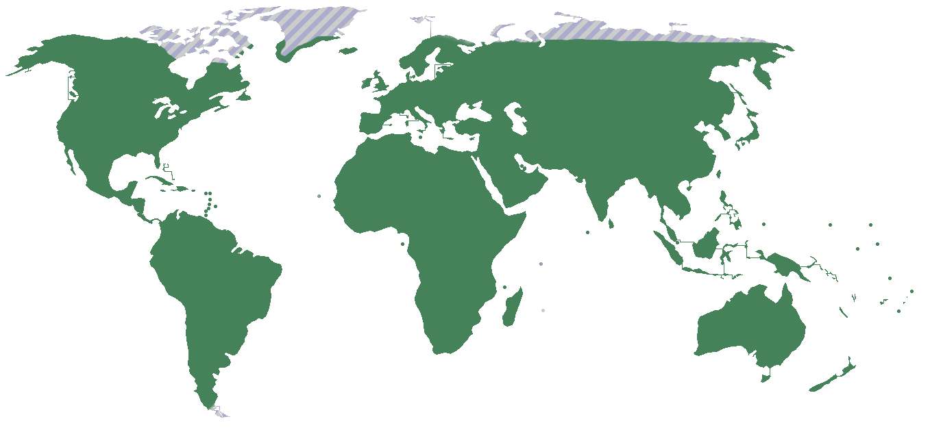 Distribution of Orchidaceae